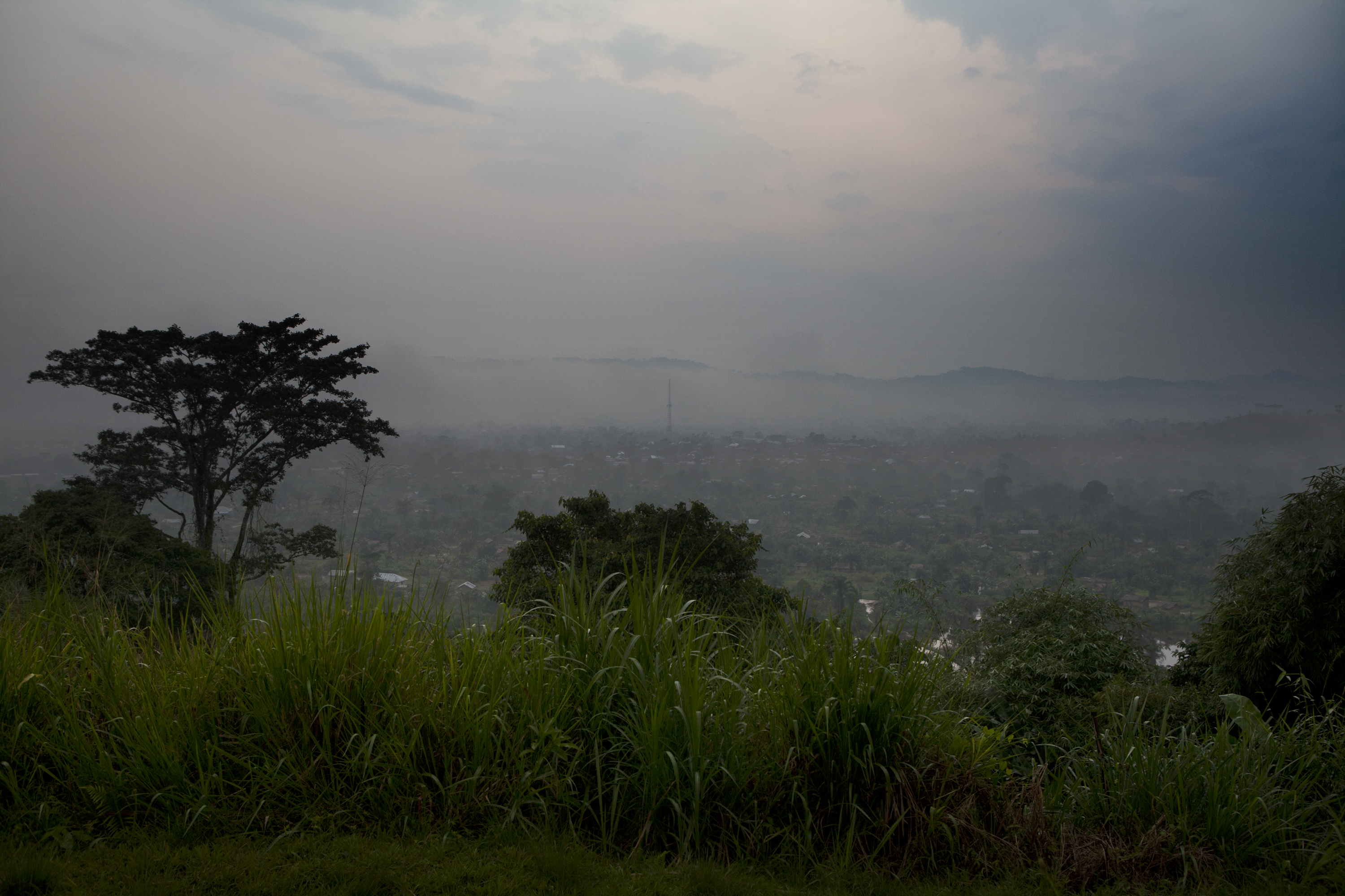 Presidential and legislative elections in DRC, Walikale 28 november 2011.